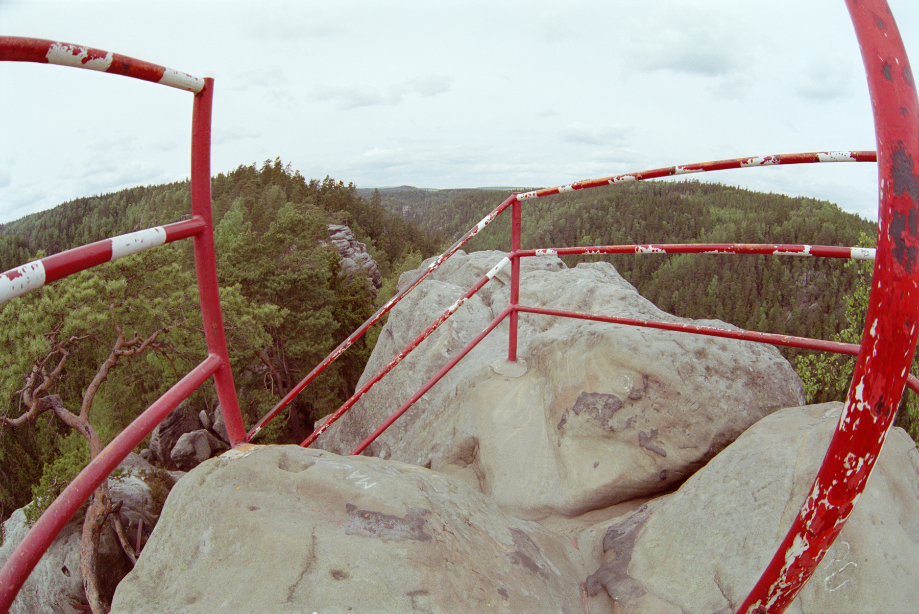 on top of castle Střmen near Teplice nad Metují (Czech Republic)